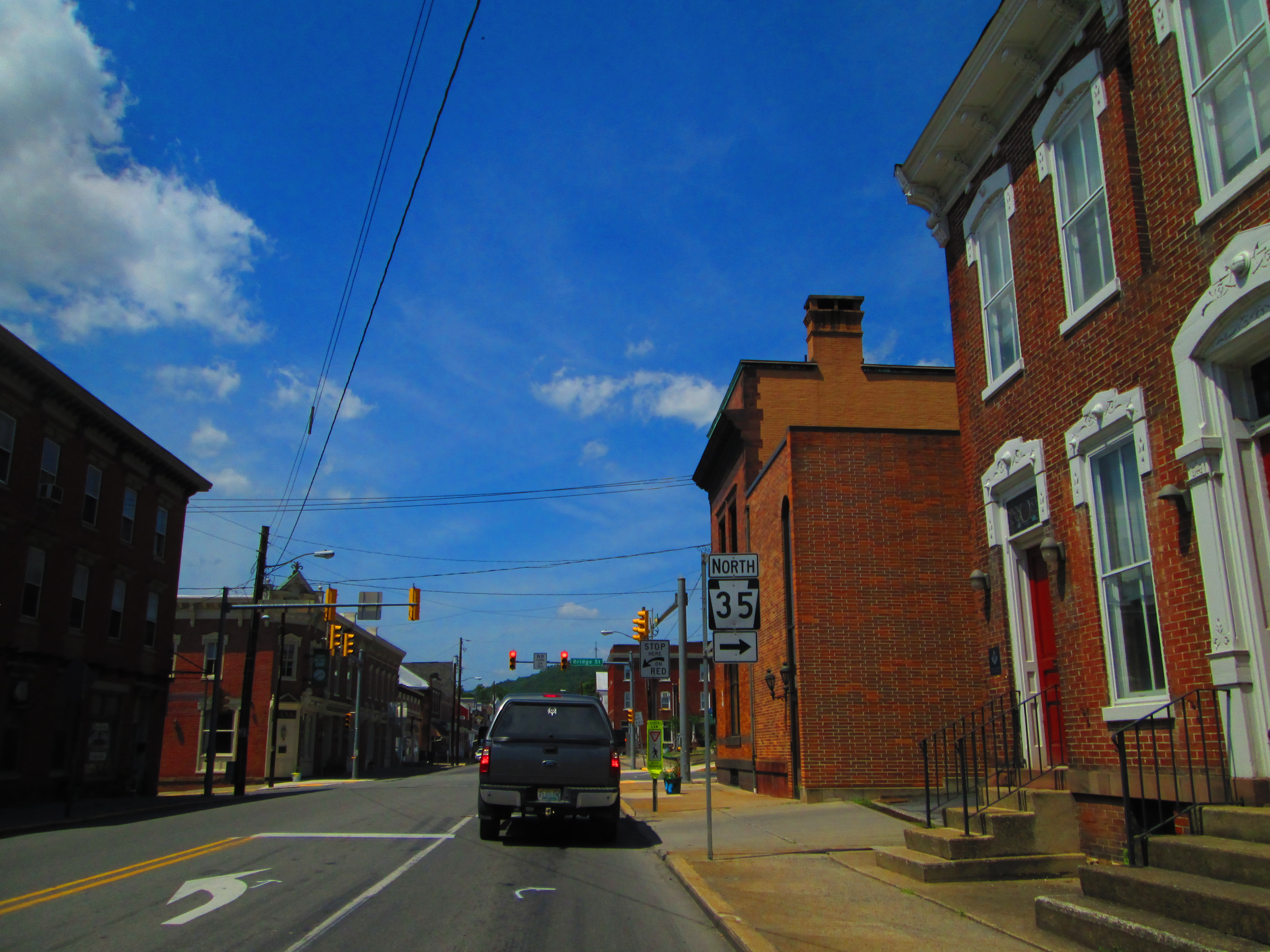 State Route 35 northbound through downtown Mifflintown, Pennsylvania.